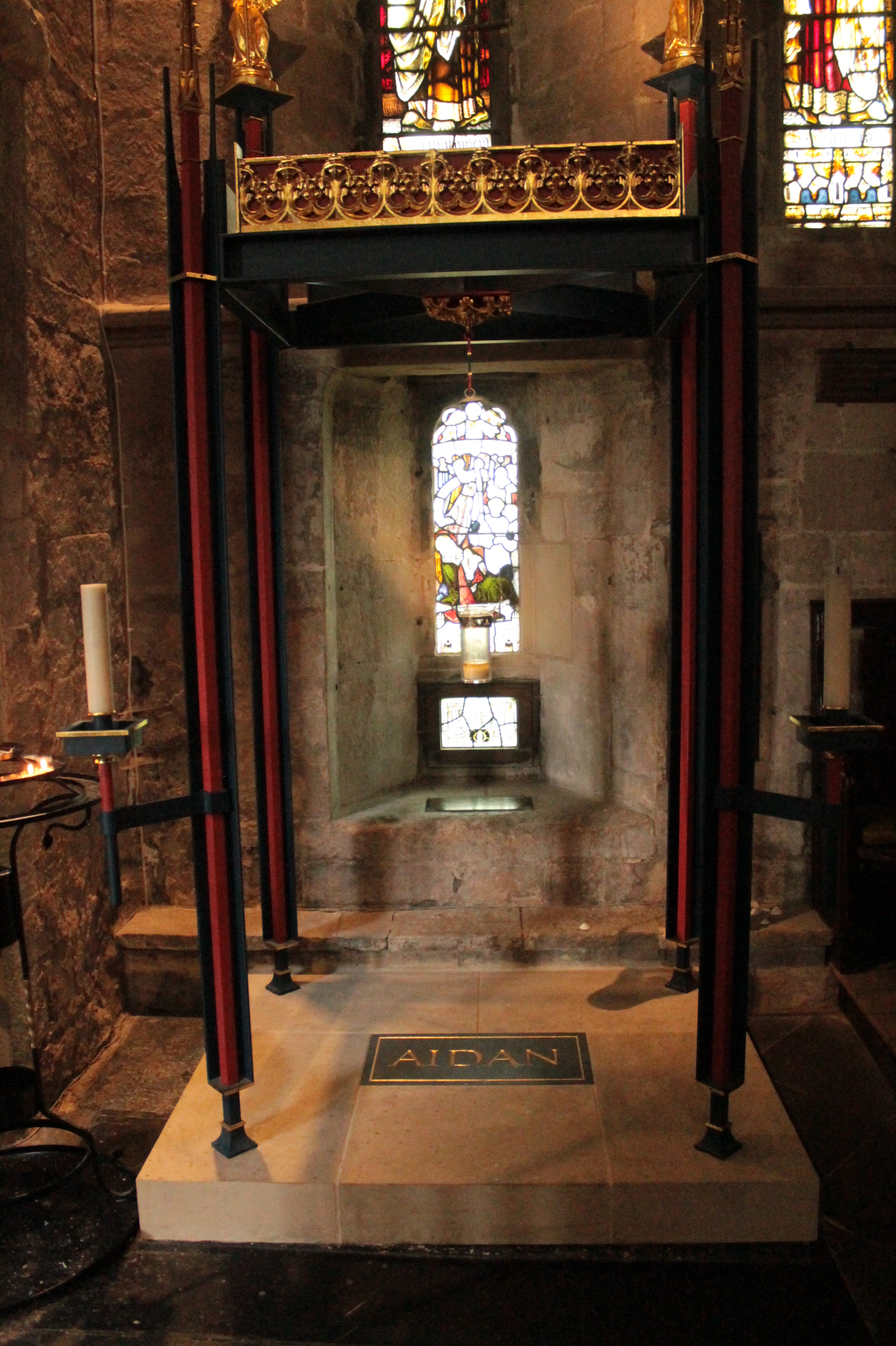 The tomb of St Aidan, St Aidan's Church, Bamburgh